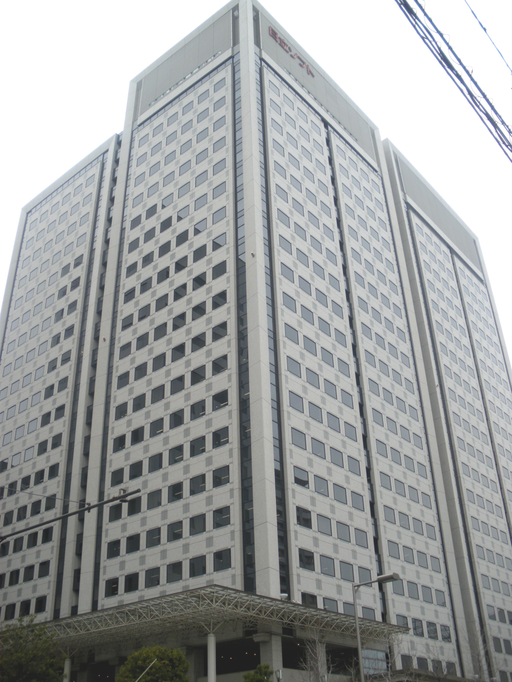 A photo of Shinagawa Seaside Hitachi Soft Tower.(Hitachi Soft Tower A(near side),Hitachi Soft Tower B(far side))Higashishinagawa,Shinagawa-ku,Tokyo,Japan.